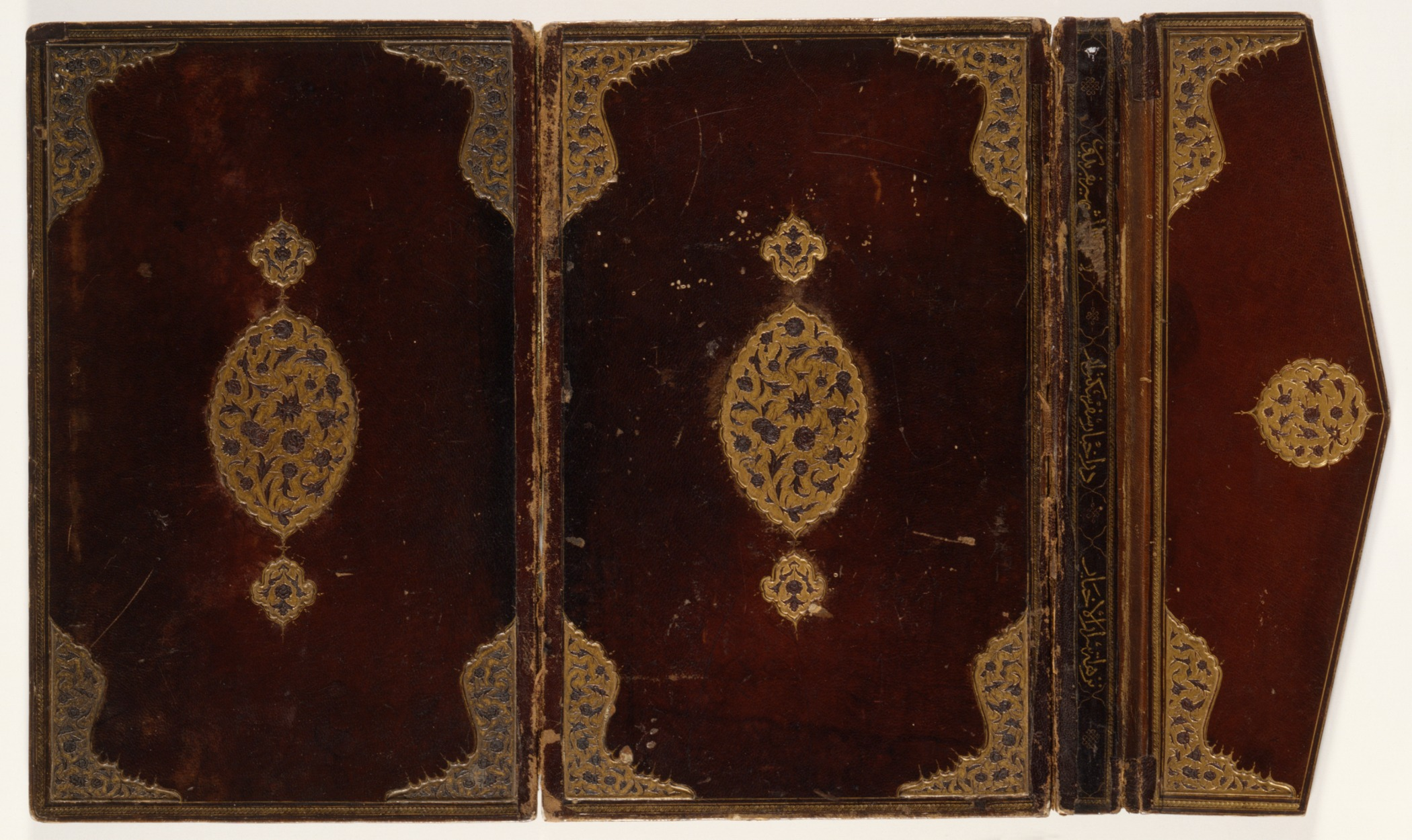 Turkey, 16th-17th century Books; bindings Leather with stamped and gilded decoration The Edwin Binney, 3rd, Collection of Turkish Art at the Los Angeles County Museum of Art (M.85.237.75) Islamic Art